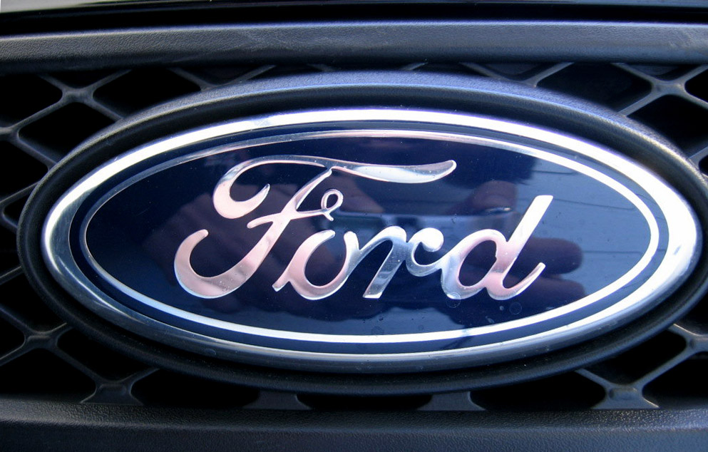 Ford Fiesta MK5 TDCi X100, photographed in Warsaw, Poland. Emblem on the front grille.